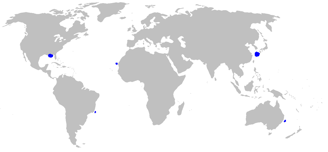 Distribution map for Isistius plutodus